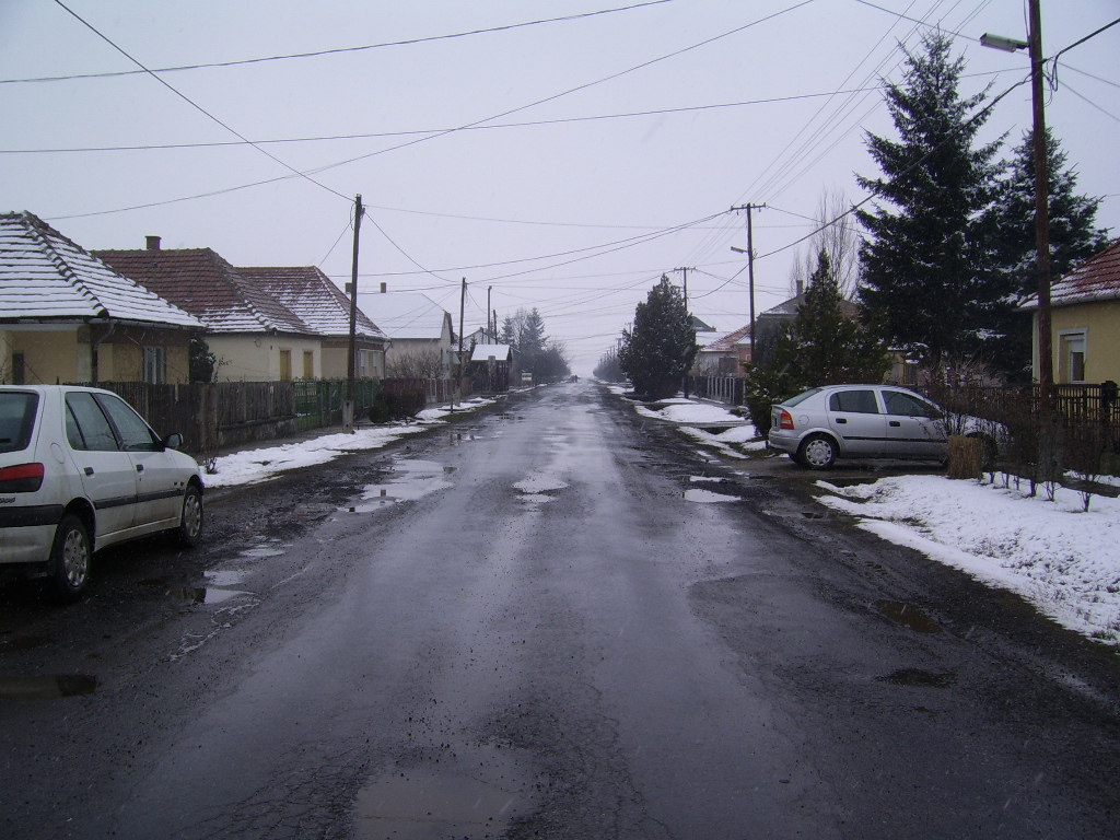 Petrovics street, winter, 2010, Onga, Hungary